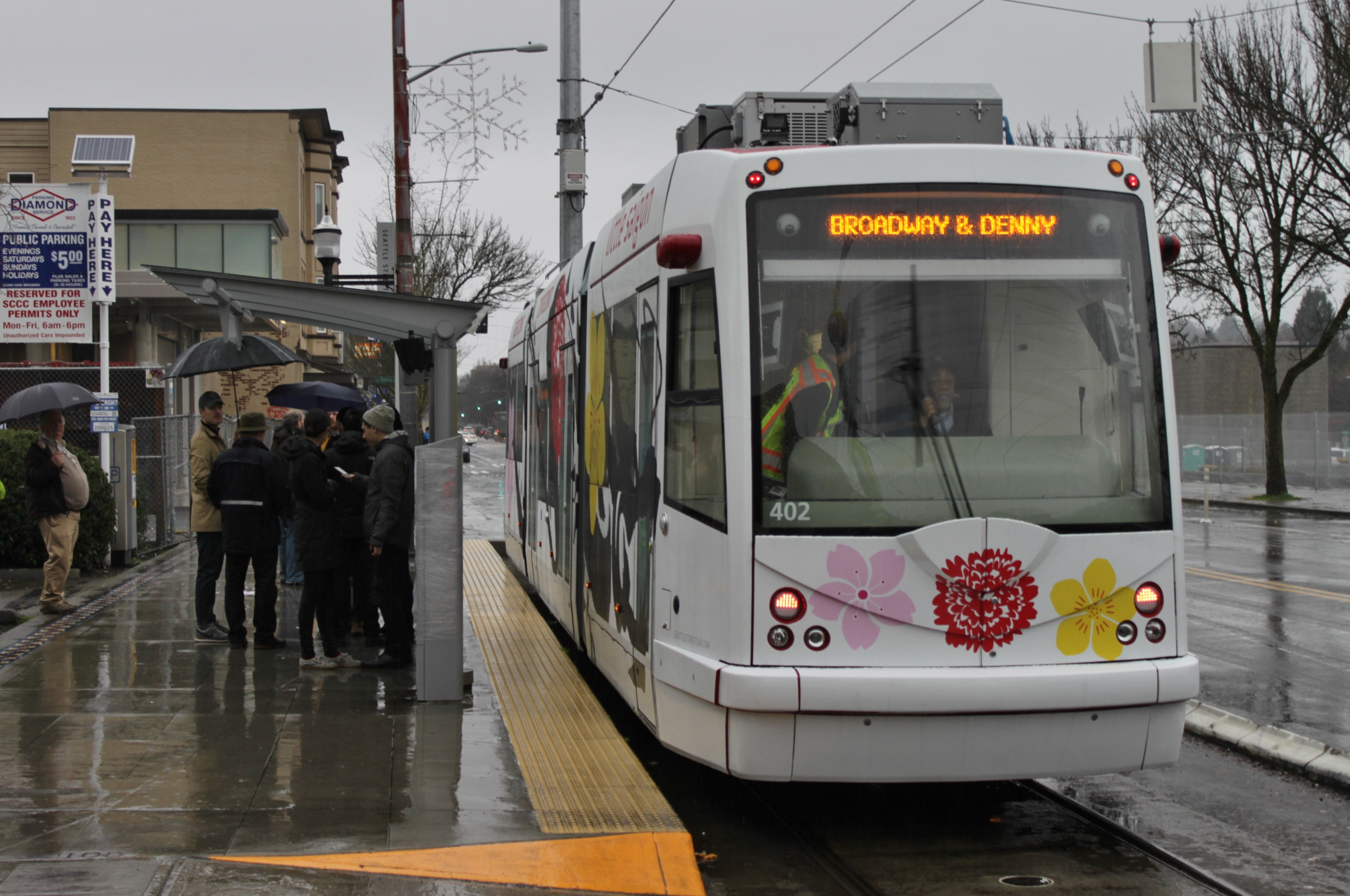 A Seattle Streetcar vehicle on the First Hill Streetcar line after its inaugural run on January 23, 2016.